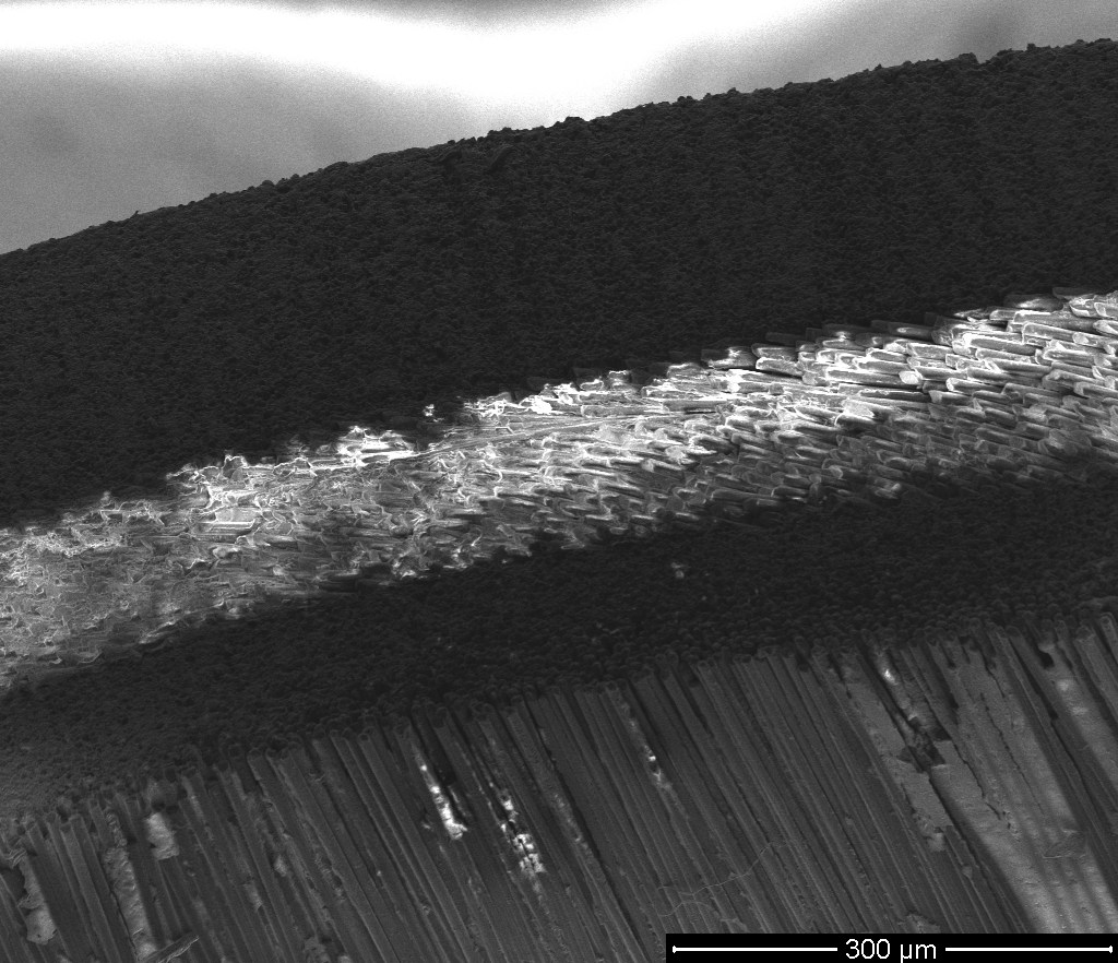 A sideprofile of an Easton Carbon One arrow with a spine of 900, taken with a scanning electron microscope (SEM). The arrow is a bond of two carbon tubes, an inner and an outer tube (black wires). In between both carbon layers, another fiber is used (white fiber). This second fiber is an Mg-Al-Si fiber. The "white" fiber is twisted around the inner carbon tube. The fibers of the carbon tubes are not twisted, to ensure a maximum of possible mechanical tension of the arrow. The Mg-Al-Si fiber enhances the flexibility of the arrow. The diameter of a single carbon fiber is approx. 7 µm.